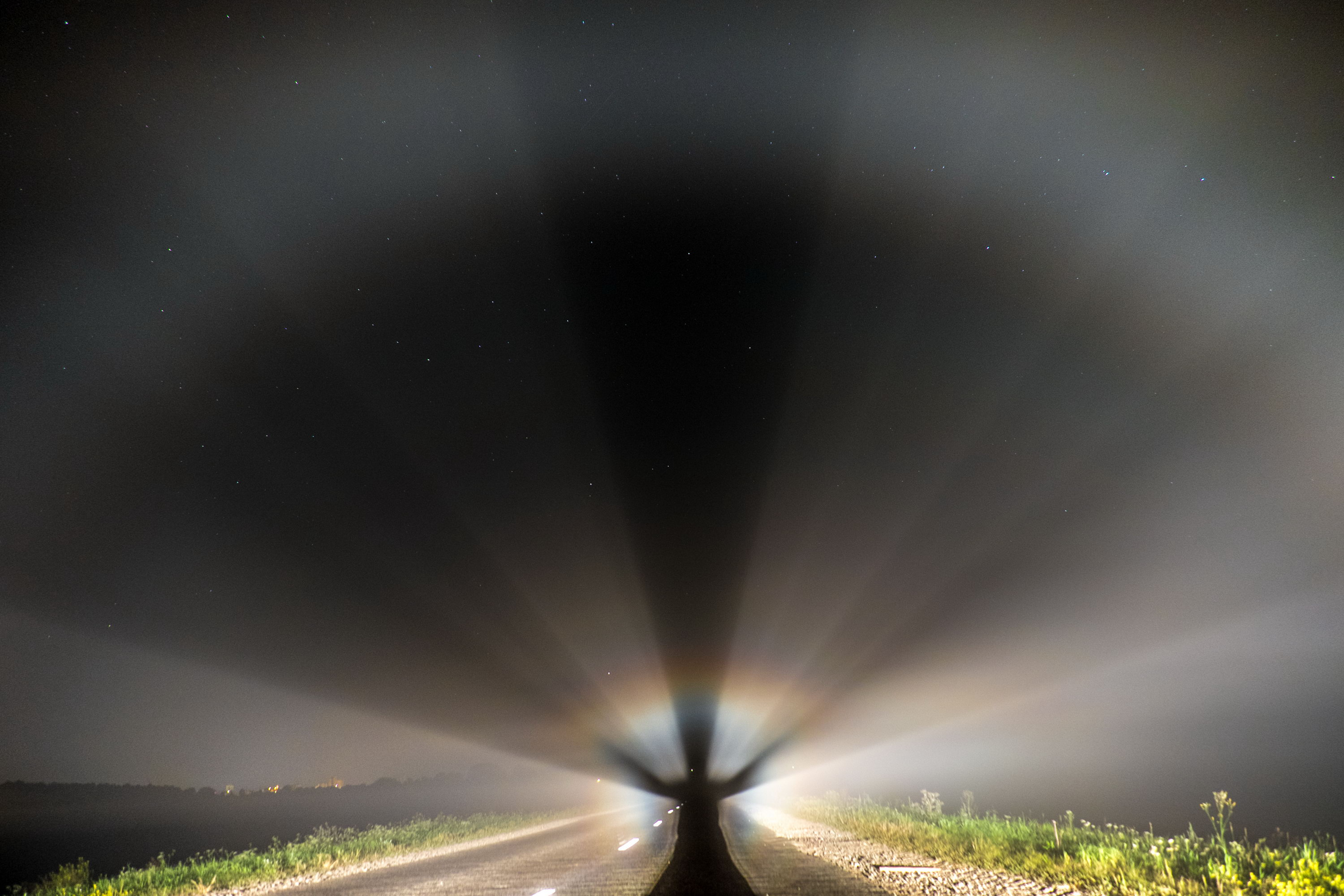 In the photo captured at the same time two rare atmospheric phenomenon: Brocken ghost, surrounded by Gloria and white lunar rainbow. Photographed near Grodno, Belarus.